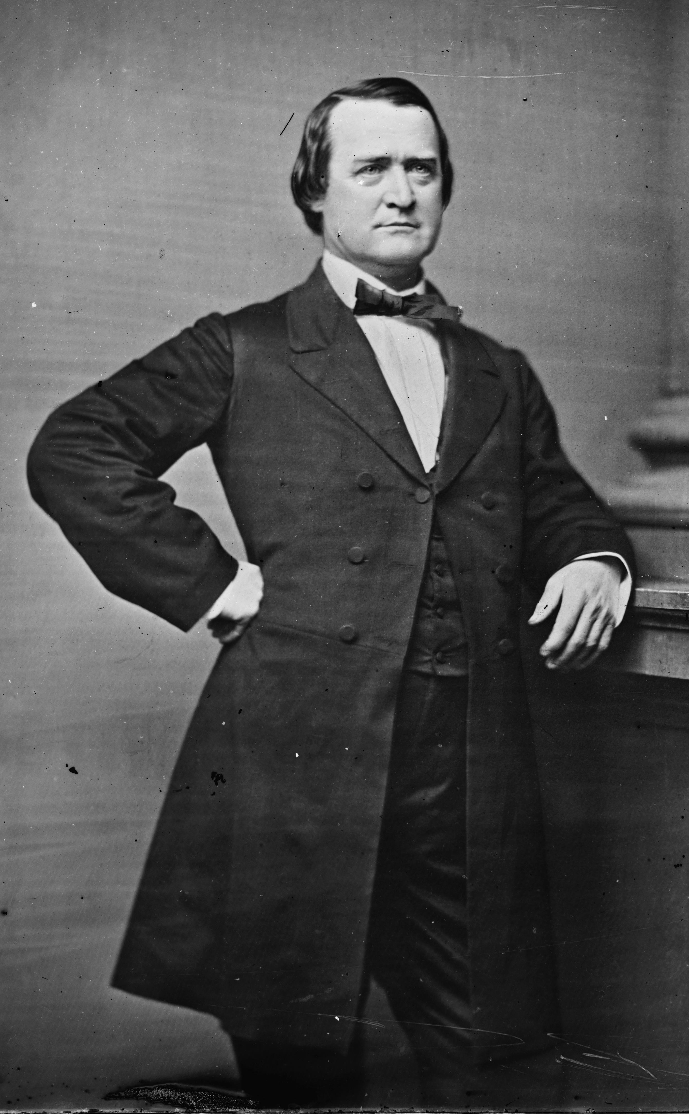 This is NOT a photo of Arthur Peronneau Hayne but rather that of a cousin; A. P. Hayne's photo by Matthew Brady exisits - this is NOT it Arthur P. Hayne. Library of Congress description: "Hon. Arthur P. Hayne of S.C."